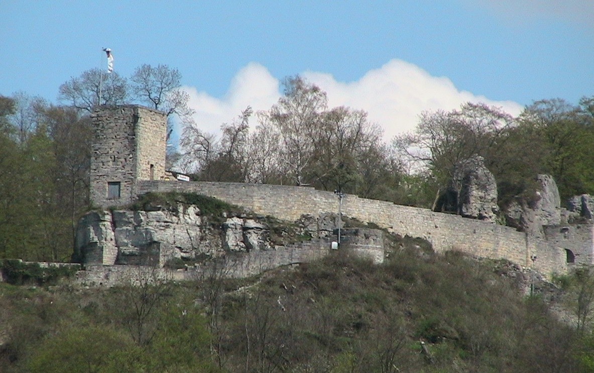 Ruins of Castle Helfenstein in Baden-Württemberg, Germany.